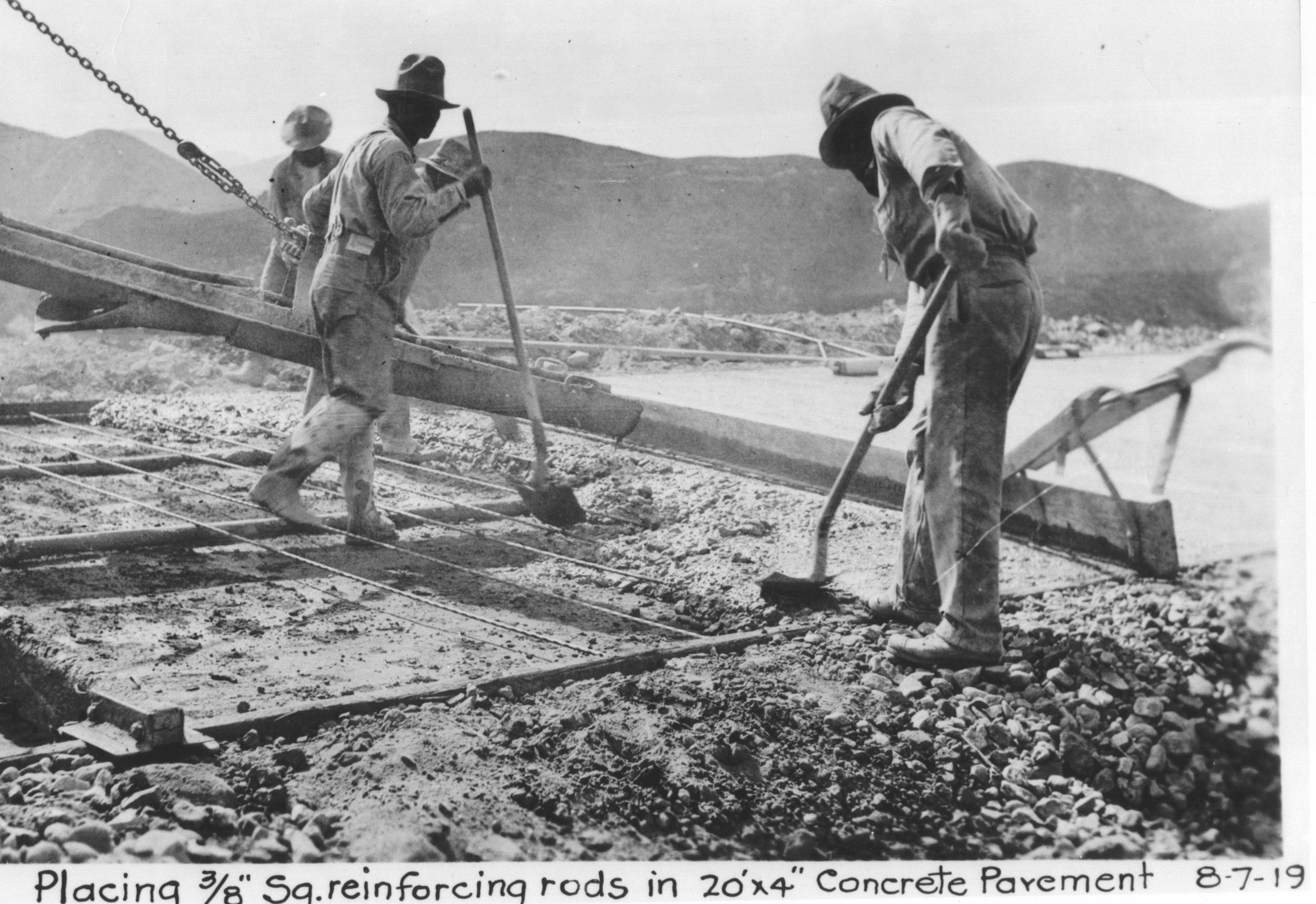 On August 7, 1919, workers are placing reinforcing steel rods in concrete pavement during construction of the Ridge Route.